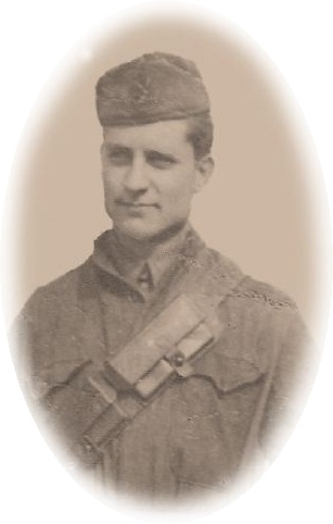 Mario Celio